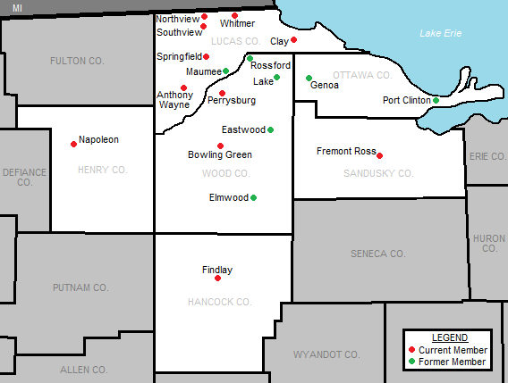 Map showing all-time members of the NLL.